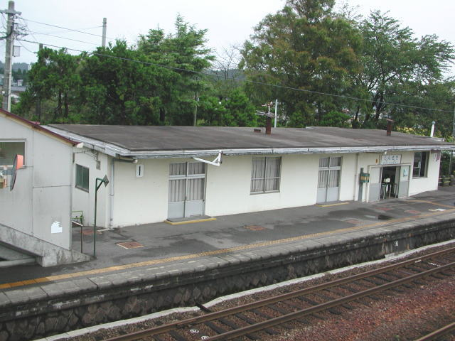 Shinseki Station in Akiha-ku, Niigata-shi, Niigata Prefecture, Japan